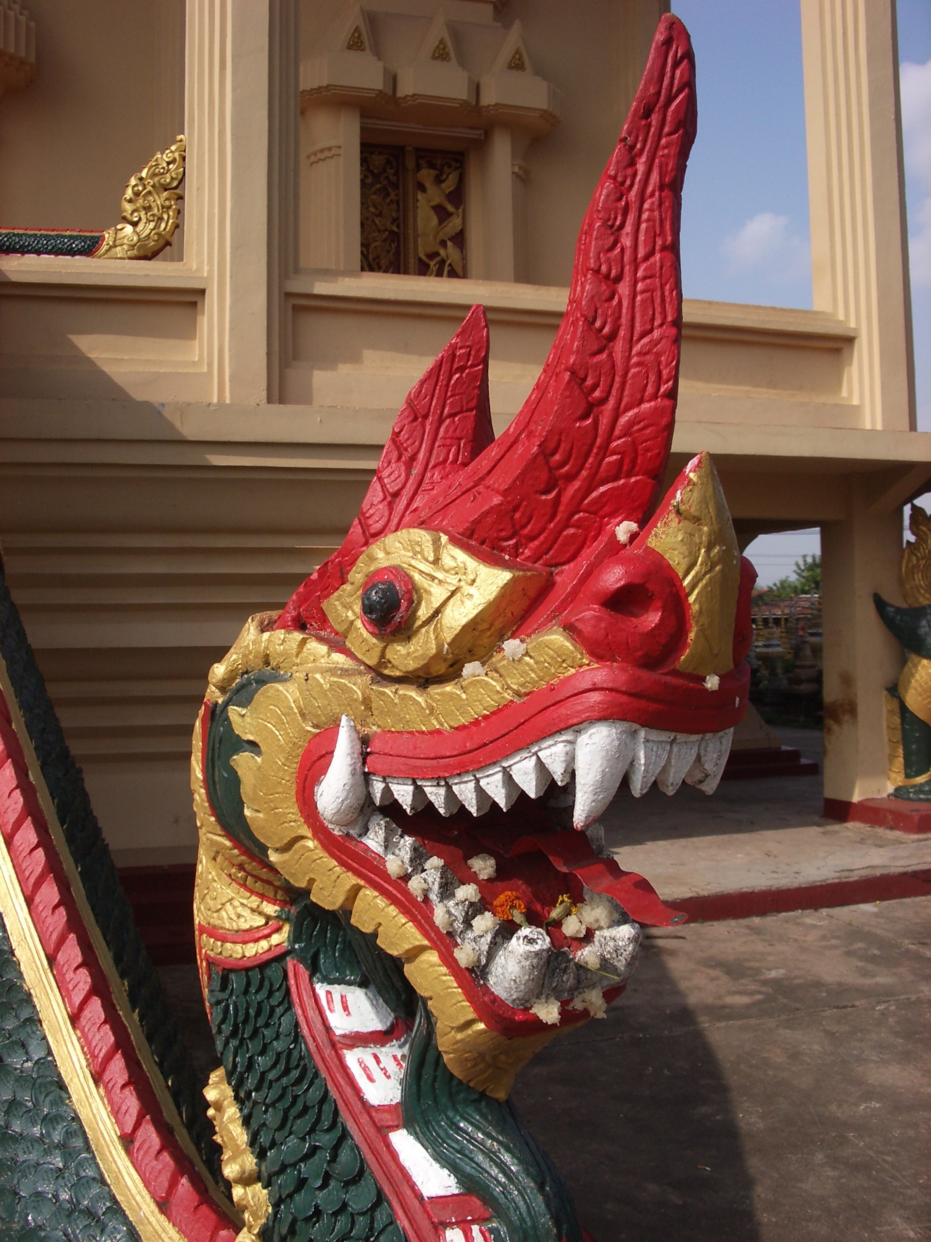 Naga Pagoda west Pha That Luang, Vientiane, Laos in October 2006